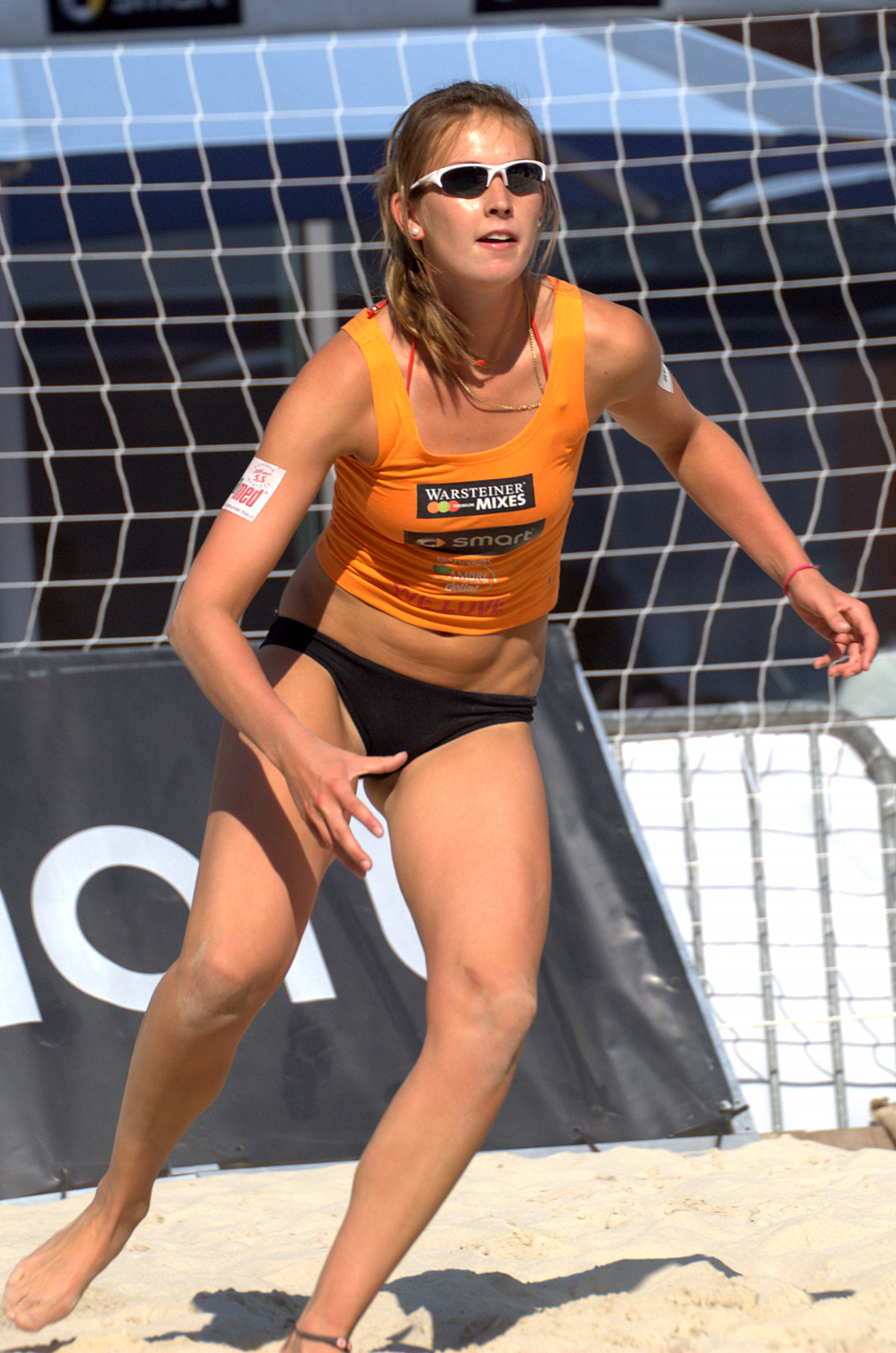 The German beach volleyball player Marika Steinhauff during the Smart Beach Tour 2008 at Bonn.